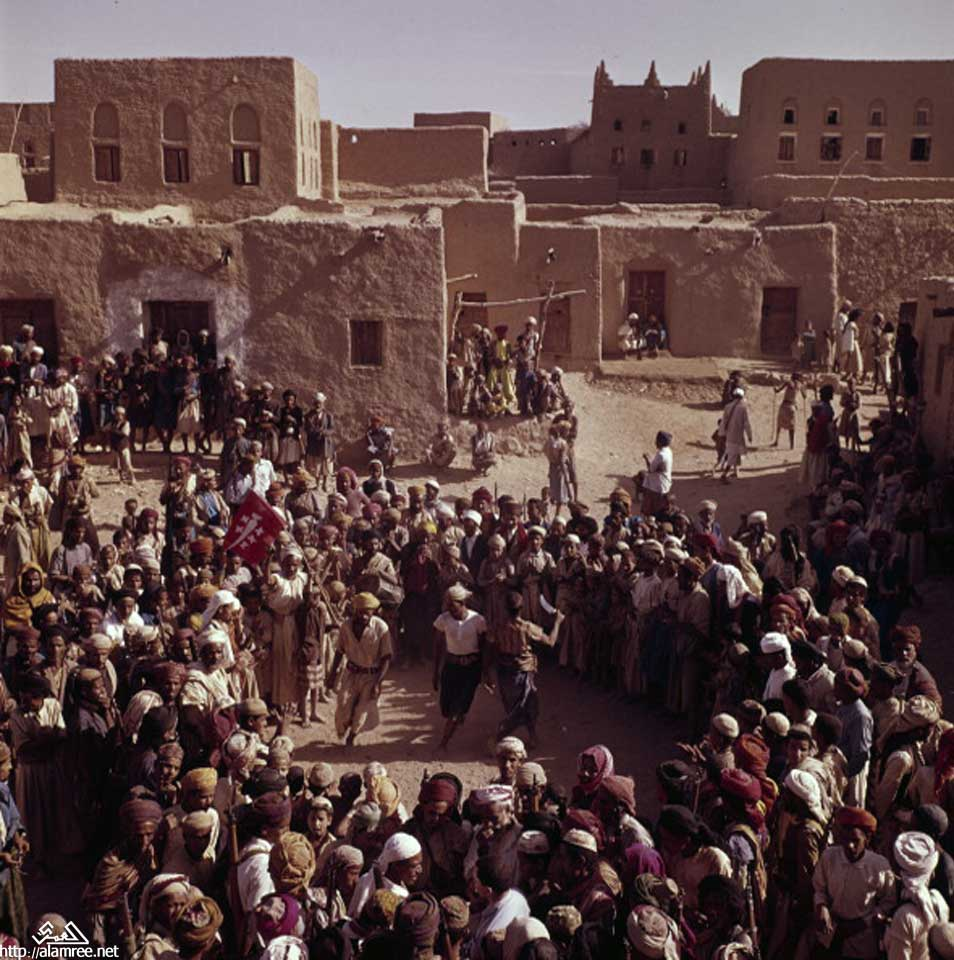 Sa'dah in the early days of the 26 September Yemeni Revolution